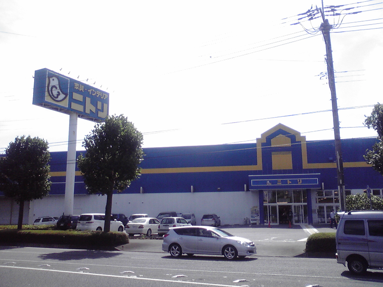 This is an old logo type Nitori shop in Ushiku, Ibaraki, Japan.